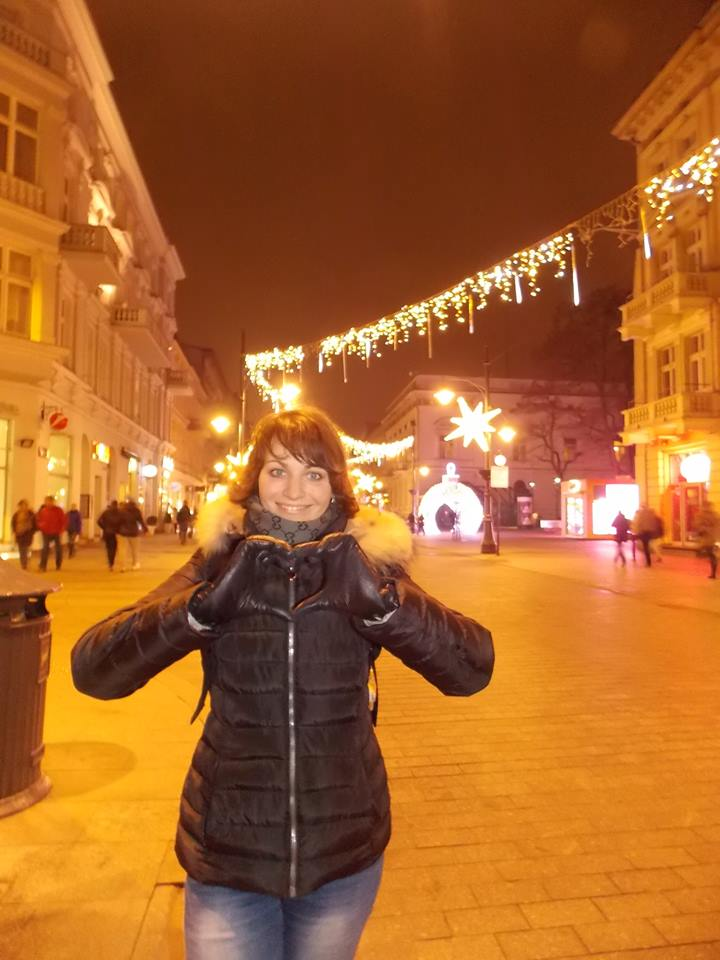 Lodz 2016